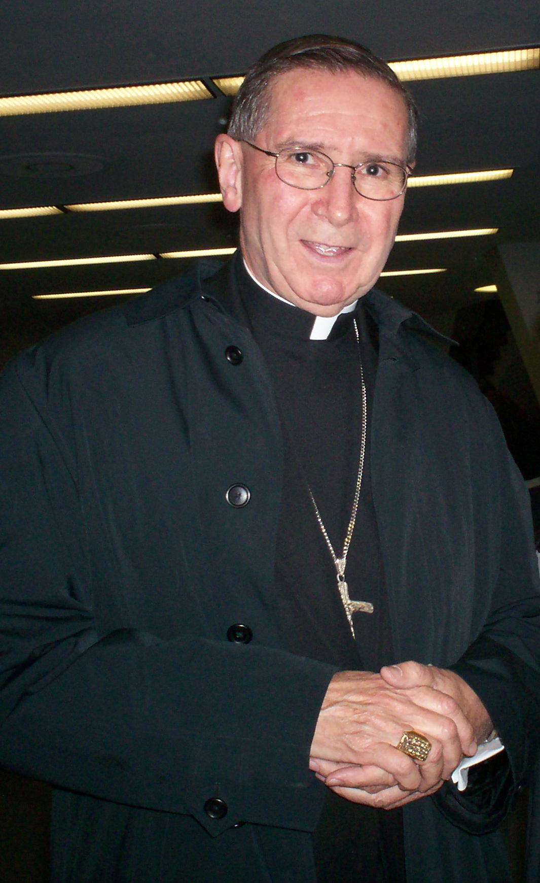 His Eminence Roger Cardinal Mahony at 2006 Religious Education Congress in Anaheim, California. Author: R. Stephenson-Padron. Source: Kodak Digital Camera.